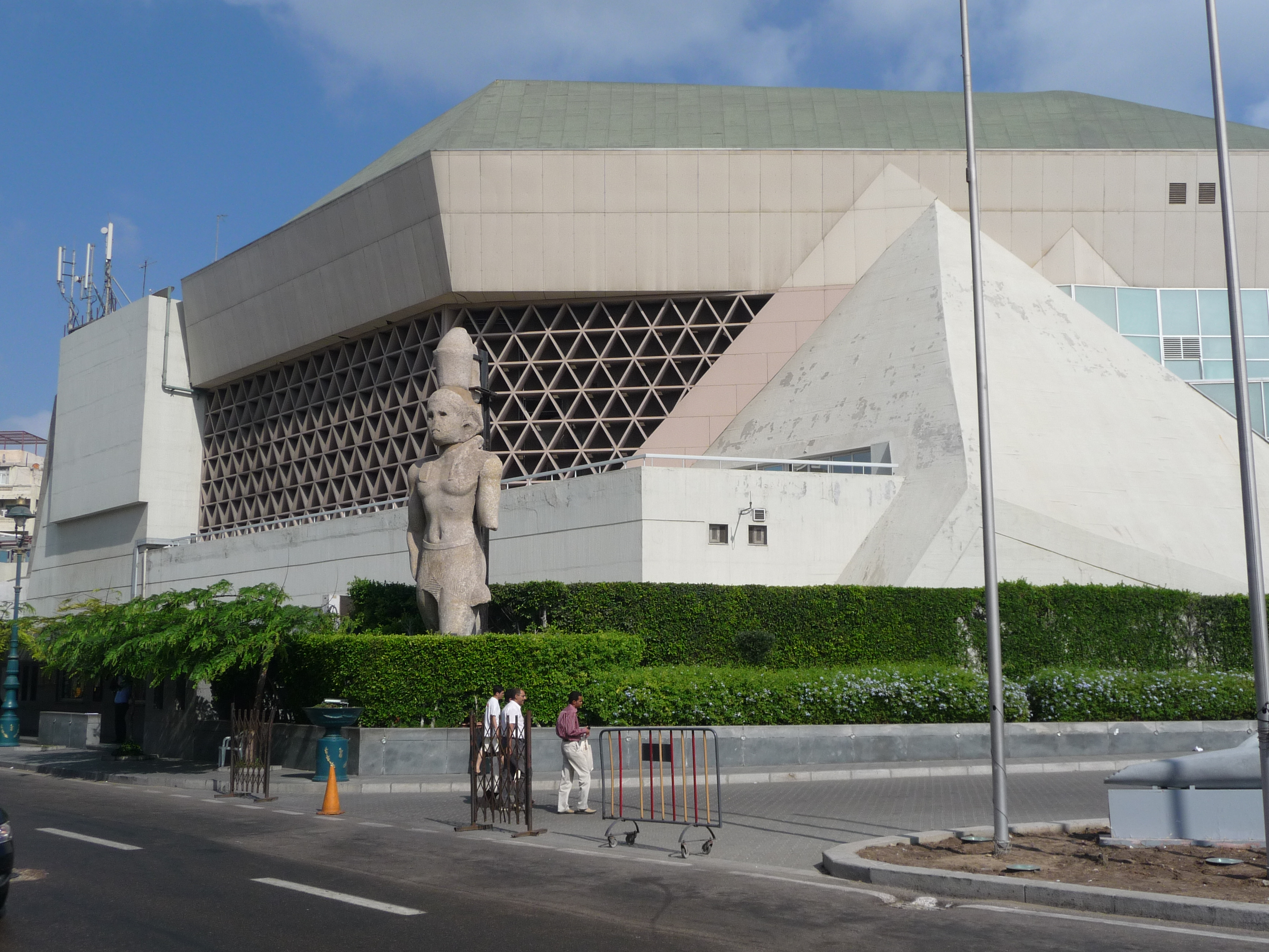 The Bibliotheca Alexandrina. View of the conference center